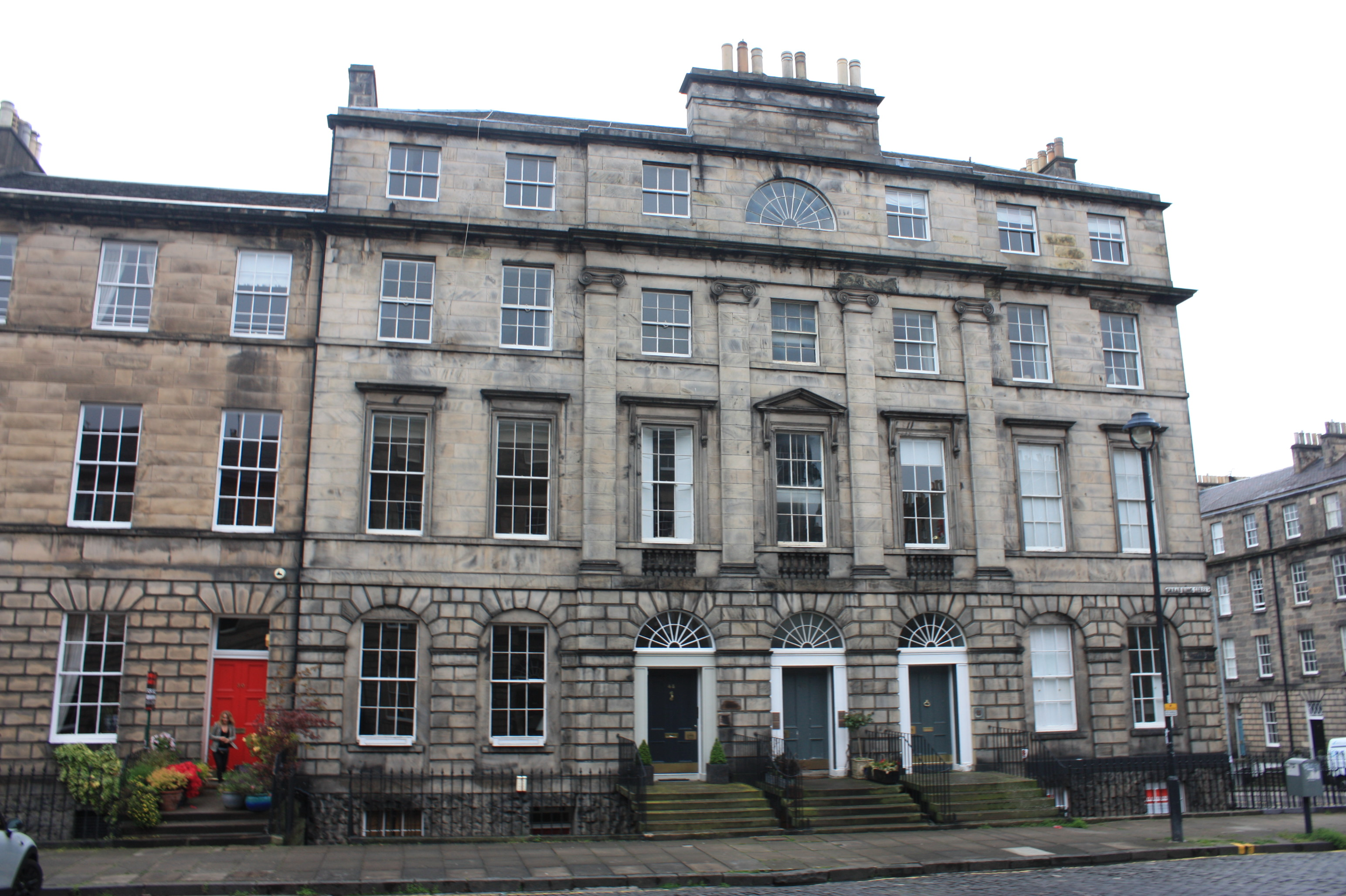 44-48 Great King Street, Edinburgh